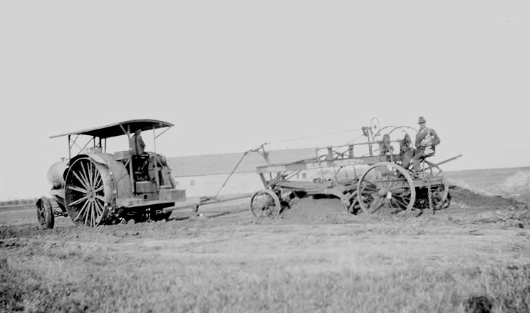 Twin City "25" tractor pulling road grader by Pazandak farm, North Dakota, c. 1918. Side view of Twin City "25" tractor pulling road grader. Two men visible on tractor and grader.